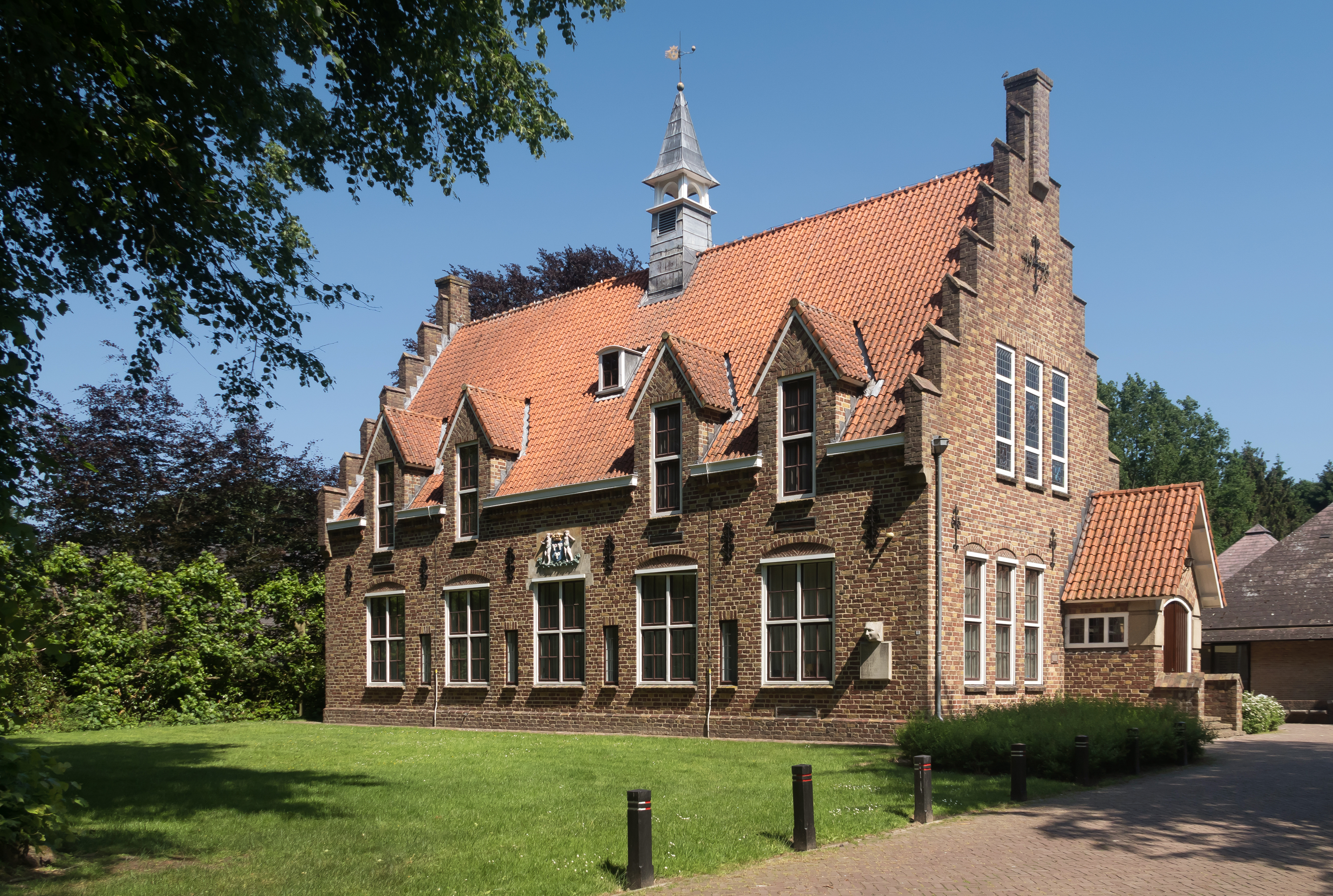 Sleen, the fomer townhall